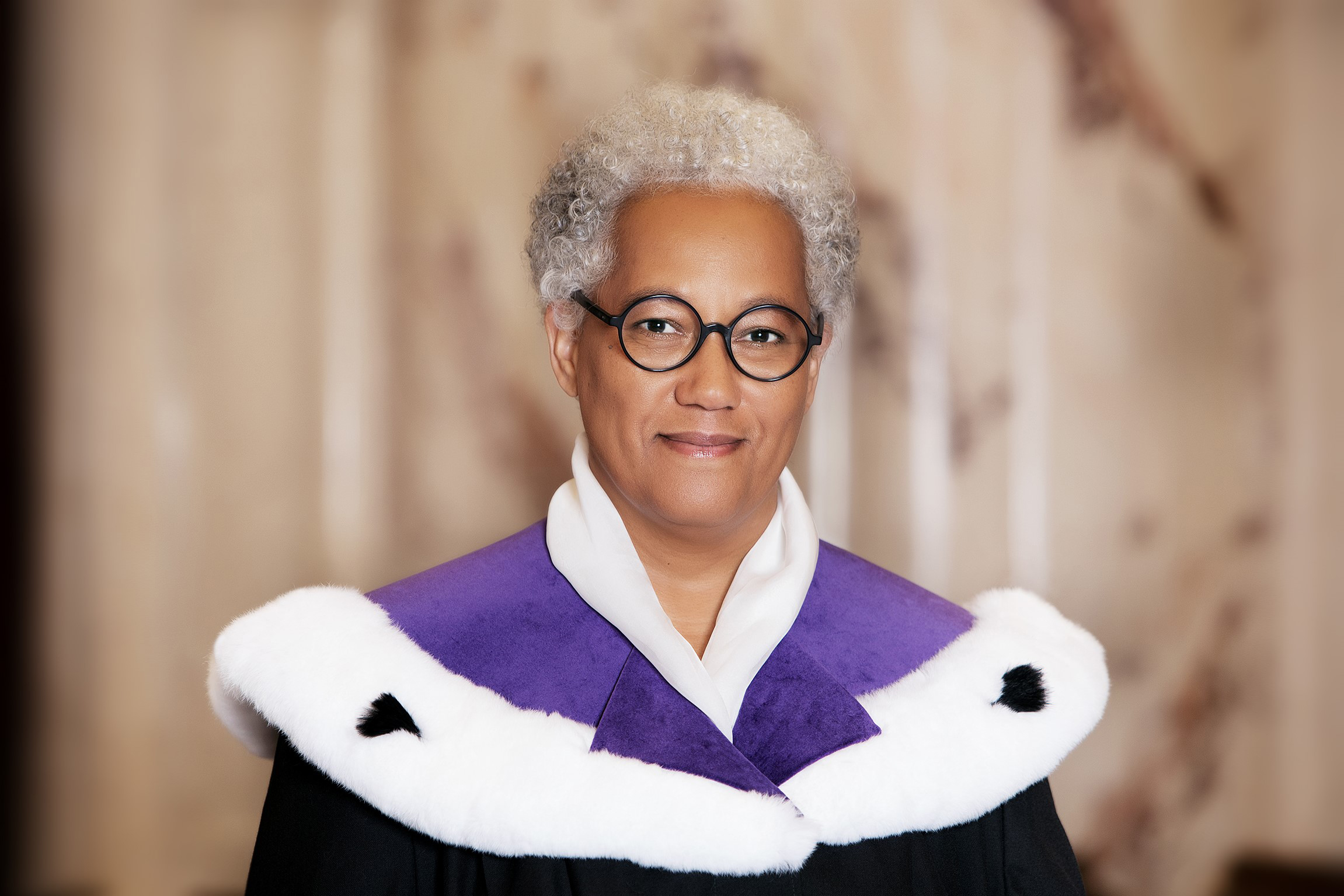 Dr. Verena Madner, Vizepräsidentin des Verfassungsgerichtshofes, Juni 2020, Freyung 8, 1010 Wien